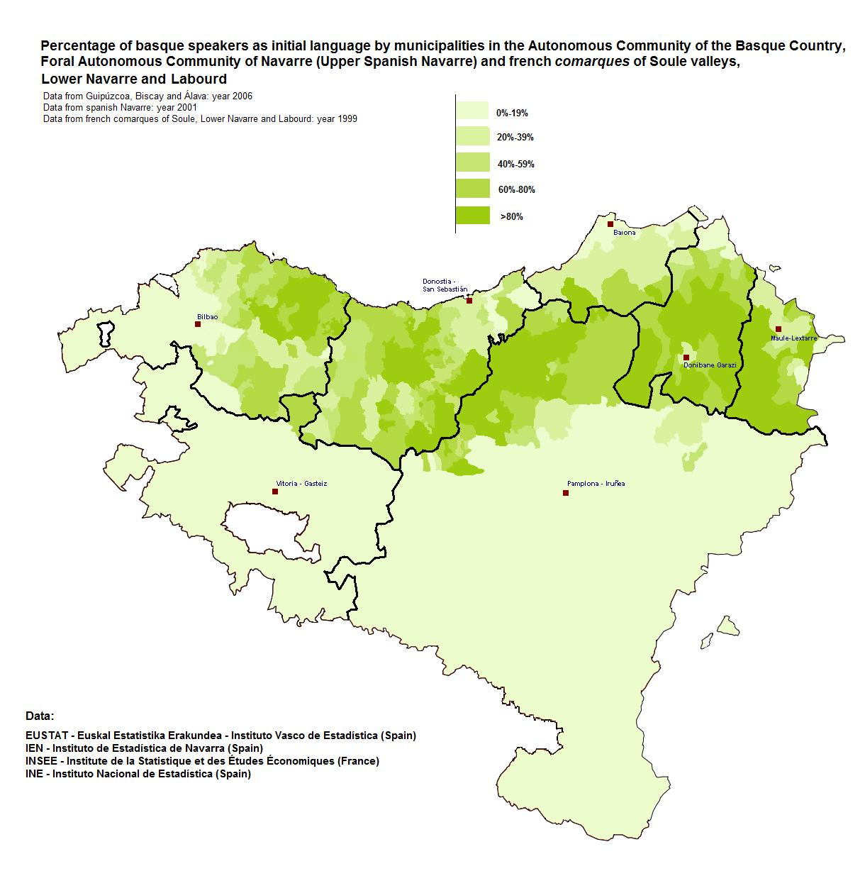 Basque language as mother language.